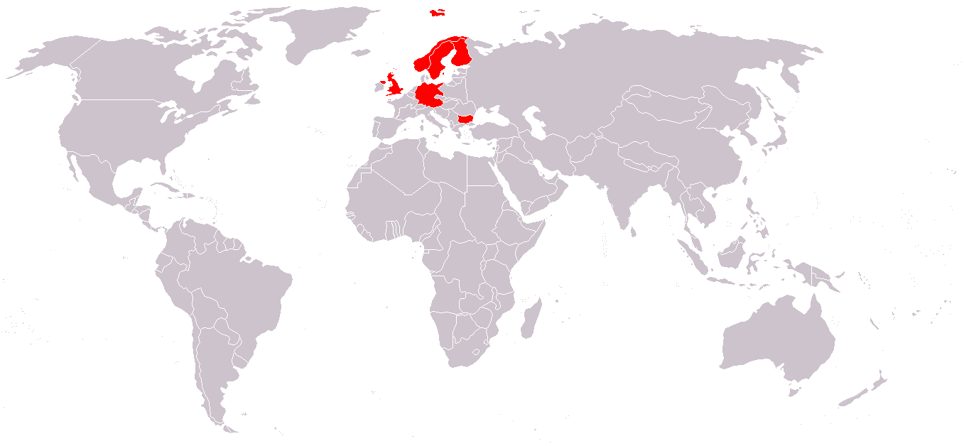 Operators of the Heinkel He 115. Own work, derivative of File:BlankMap-World-WWII.PNG.